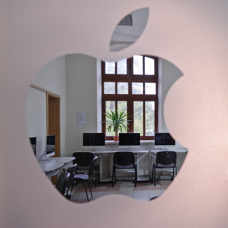 Laboratory of AATCe